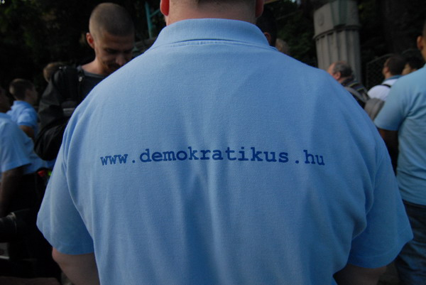 Label of the DH